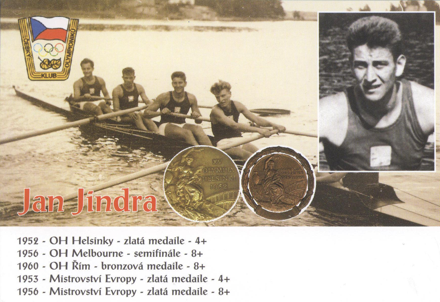 Jan Jindra